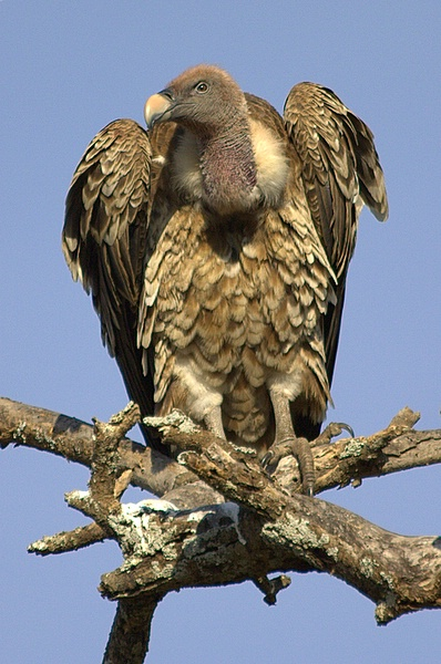 Rüppell's Vulture (Gyps rueppellii) in the Serengeti, Tanzania.